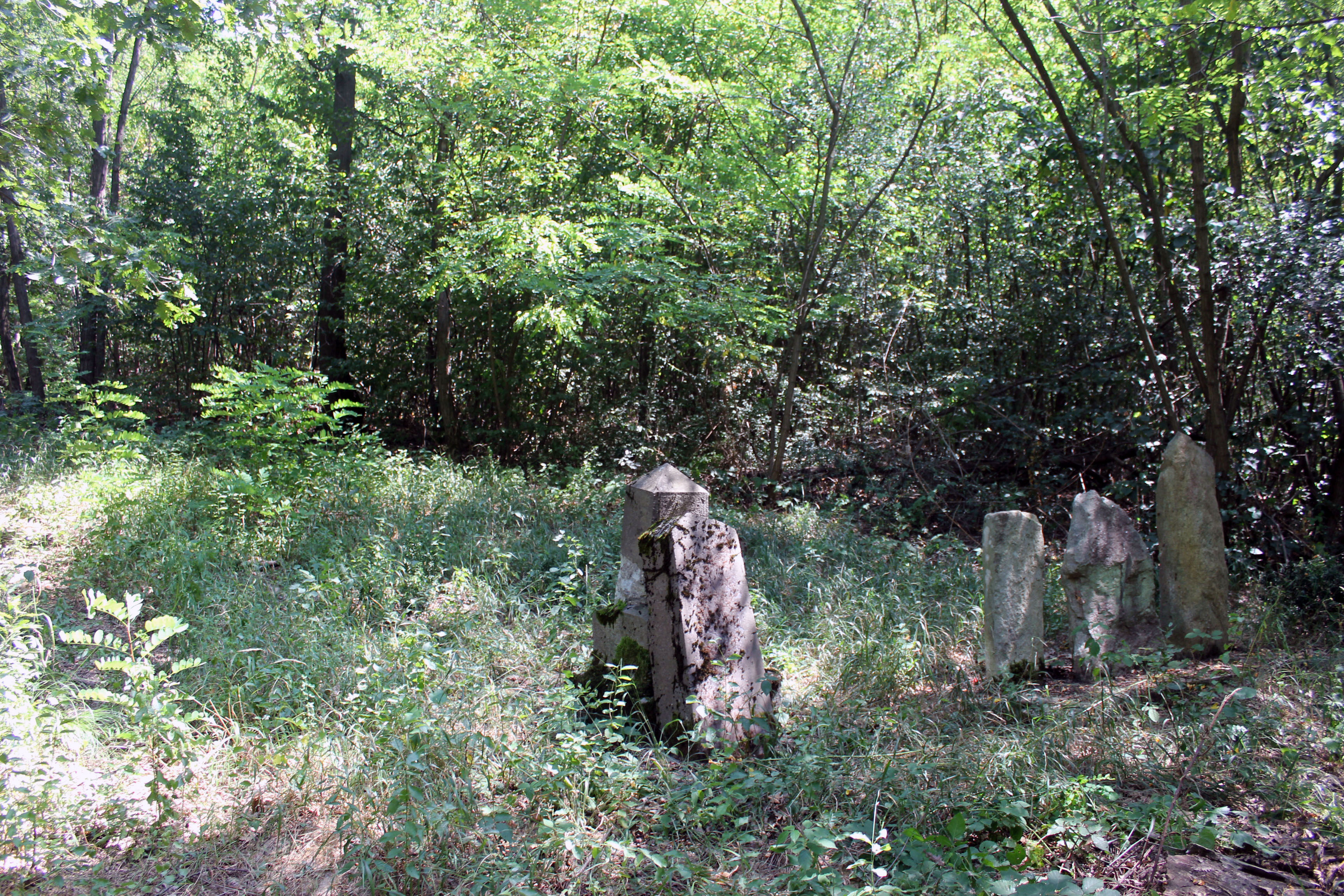 Battle of Čokešina monuments.